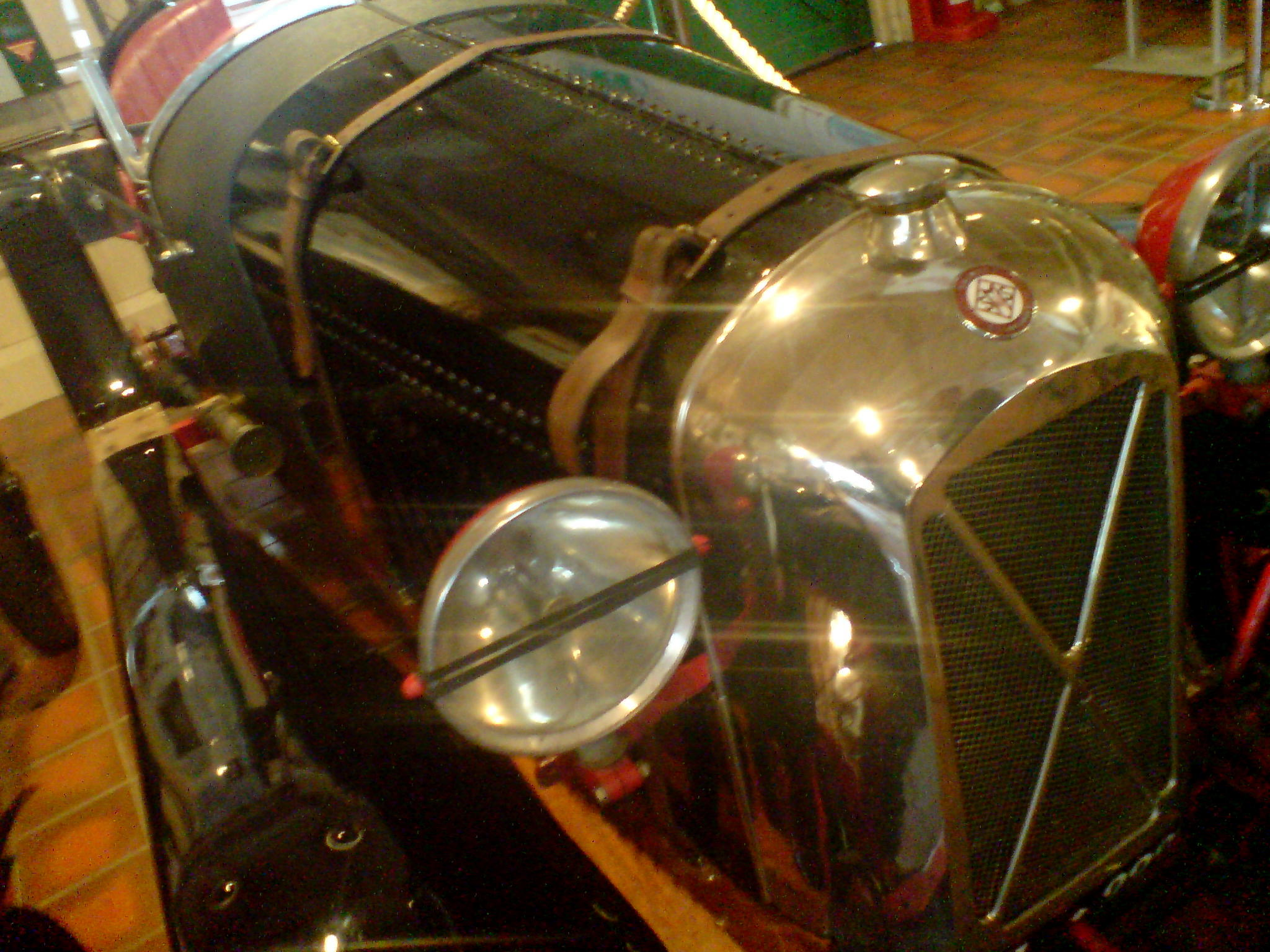 A Car at Brooklands Museum 1925 Salmson Grand Sport